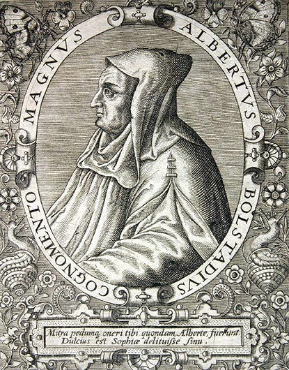 Albertus Magnus